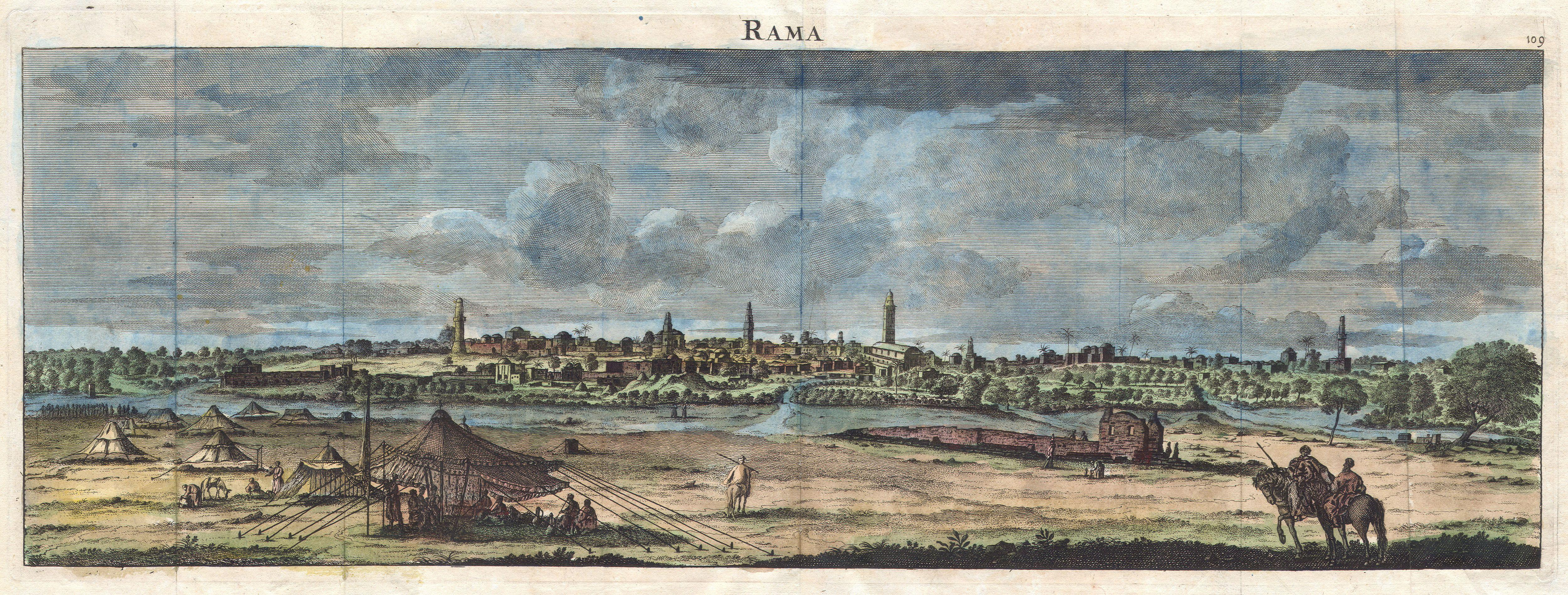 A rare 1698 view of Ramla by Dutch artist Cornelius de Bruijin. Depicts the city as well as the nearby caravan staging grounds. Arab horsemen and tent camps decorate the foreground. This view was most likely rendered in secret during de Bruijin’s second world tour. The Holy Land was then under the control of the Ottoman Empire who imposed strict limitations on pilgrims and tourist from Europe. It is highly unlikely that de Bruijin would have been allowed to make sketches of the region openly.